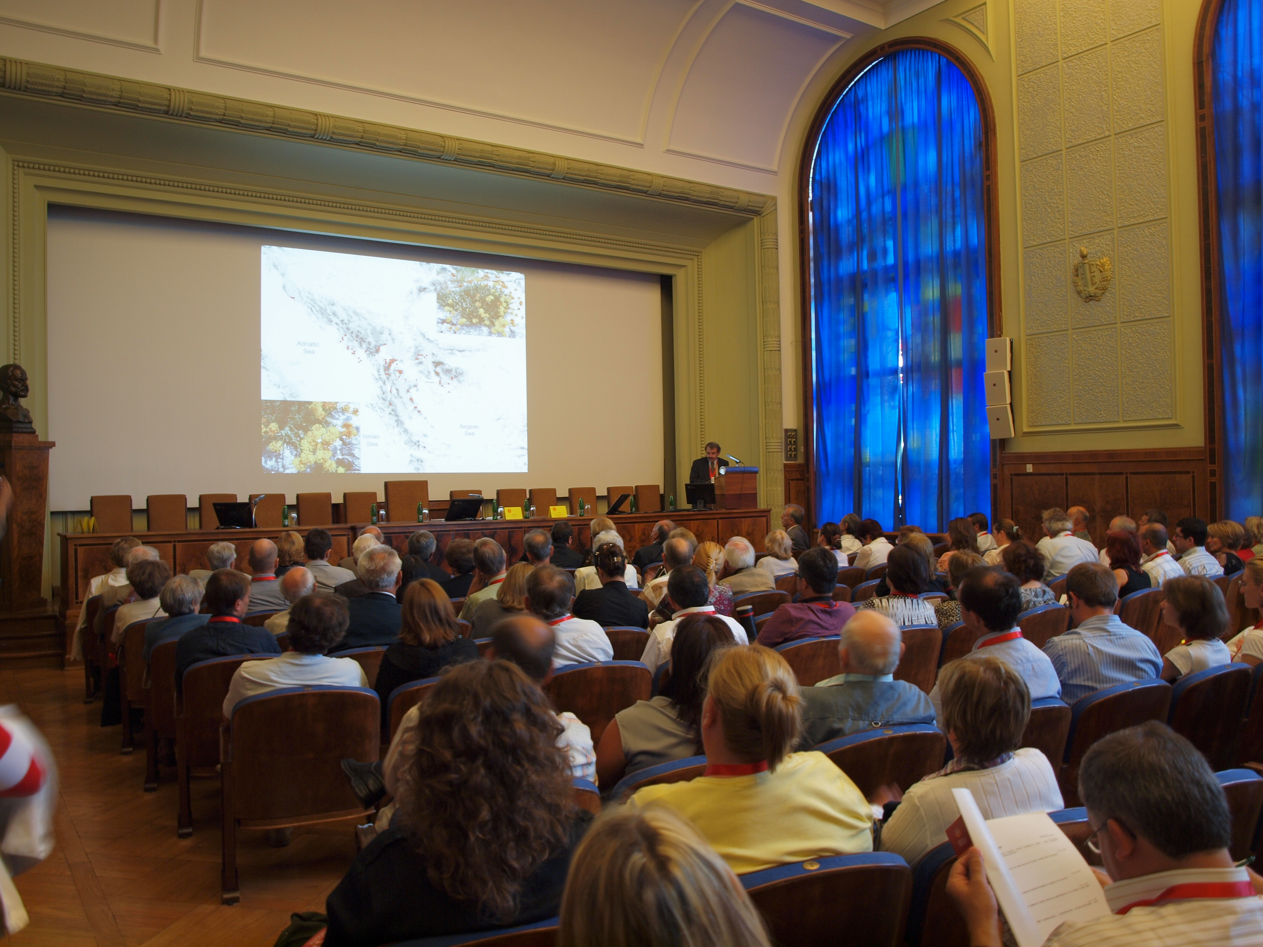 Great hall Serbian academy, Belgrade